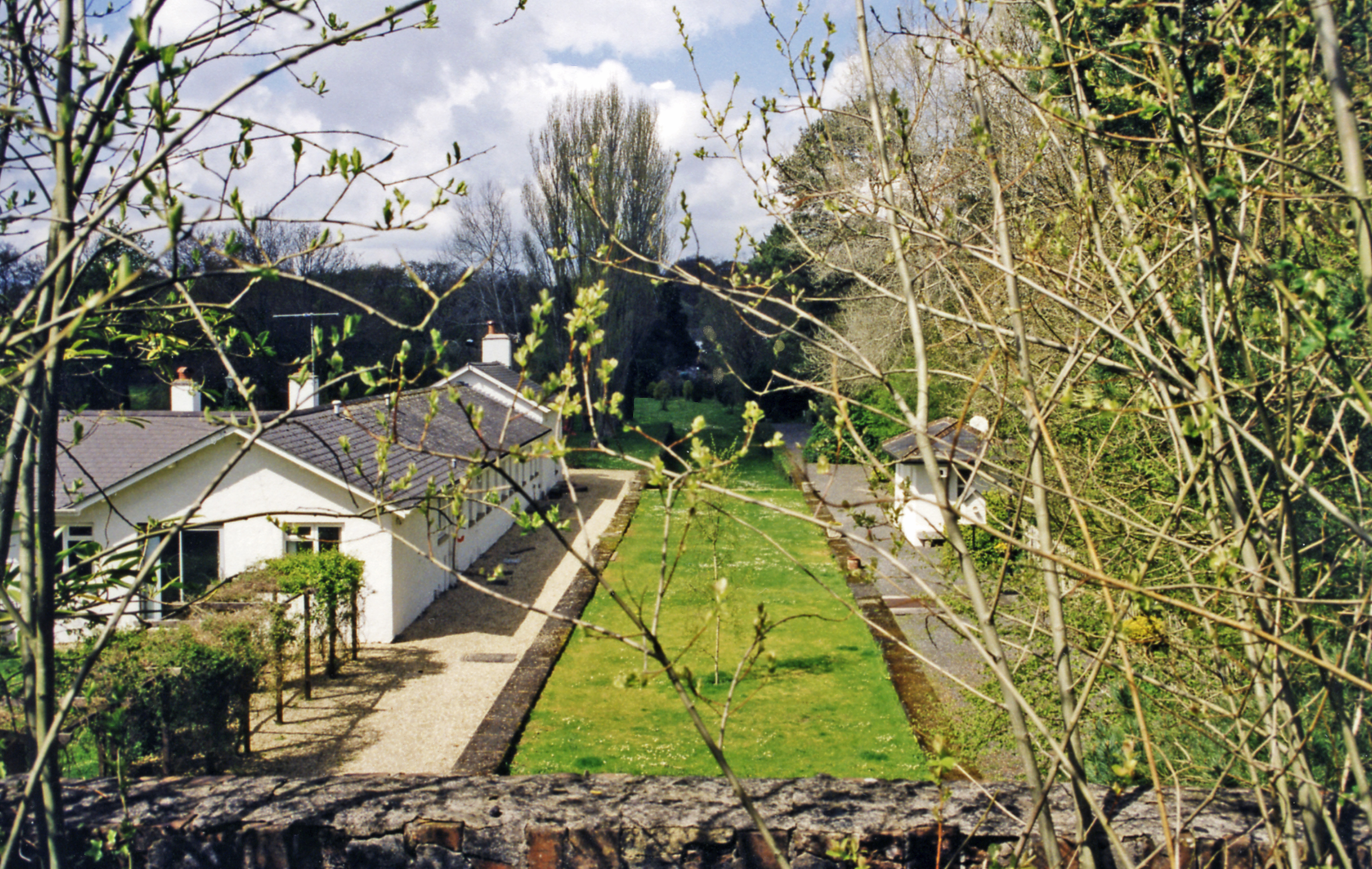 Ashton station (site/remnants). View northward, towards Christow and Exeter: ex-GWR Teign Valley line (Exeter - Christow - Heathfield - Newton Abbot). The station was closed on cessation of the passenger service 9/6/58, goods 2/3/59. The houses and garden have obviously been built more recently, incorporating some of the station.